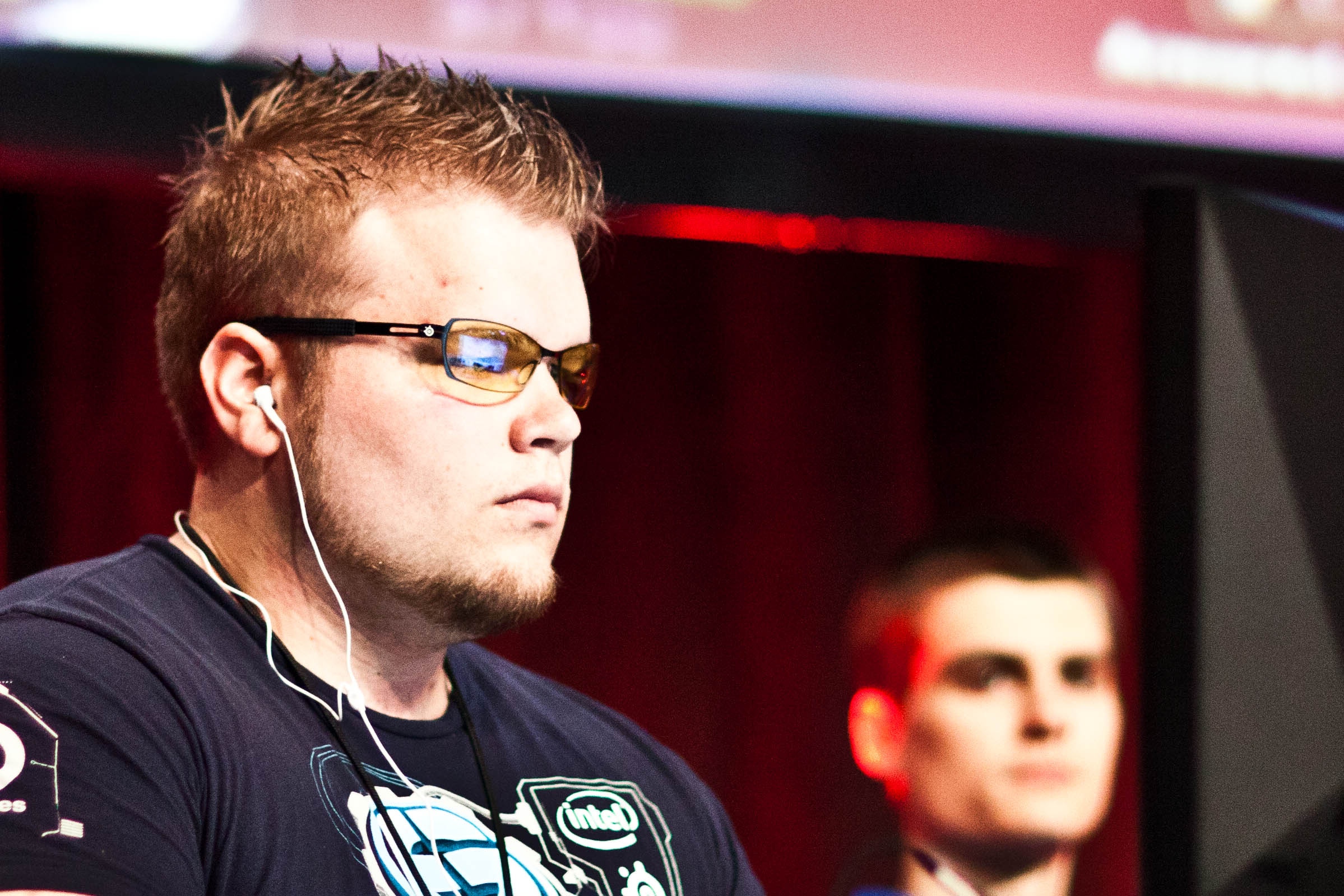 Geoff "iNcontrol" Robinson from Team Evil Geniuses, playing a competative starcraft 2 match at MLG Dallas 2011.